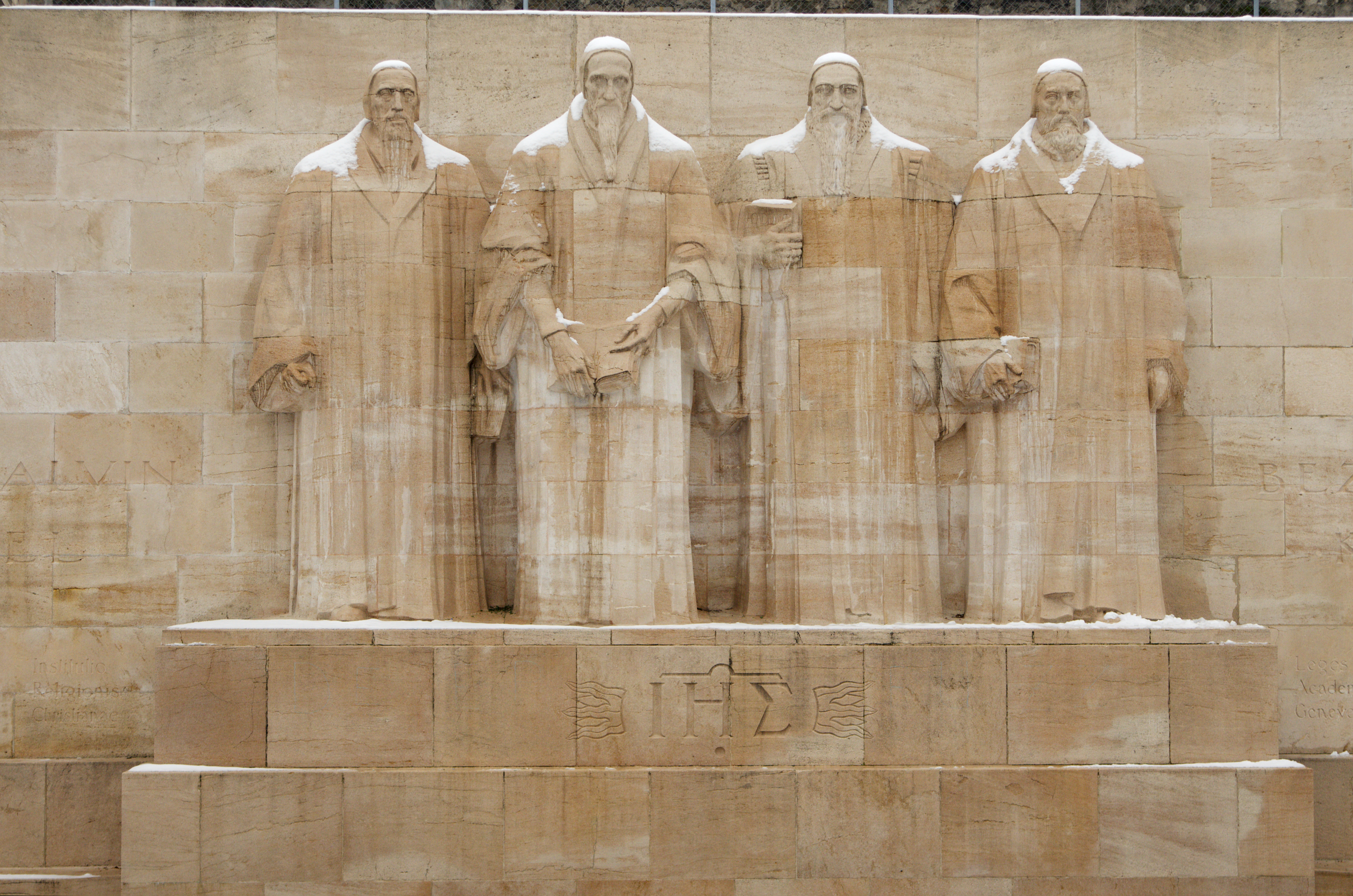 Genève - Mur des réformateurs sous la neige